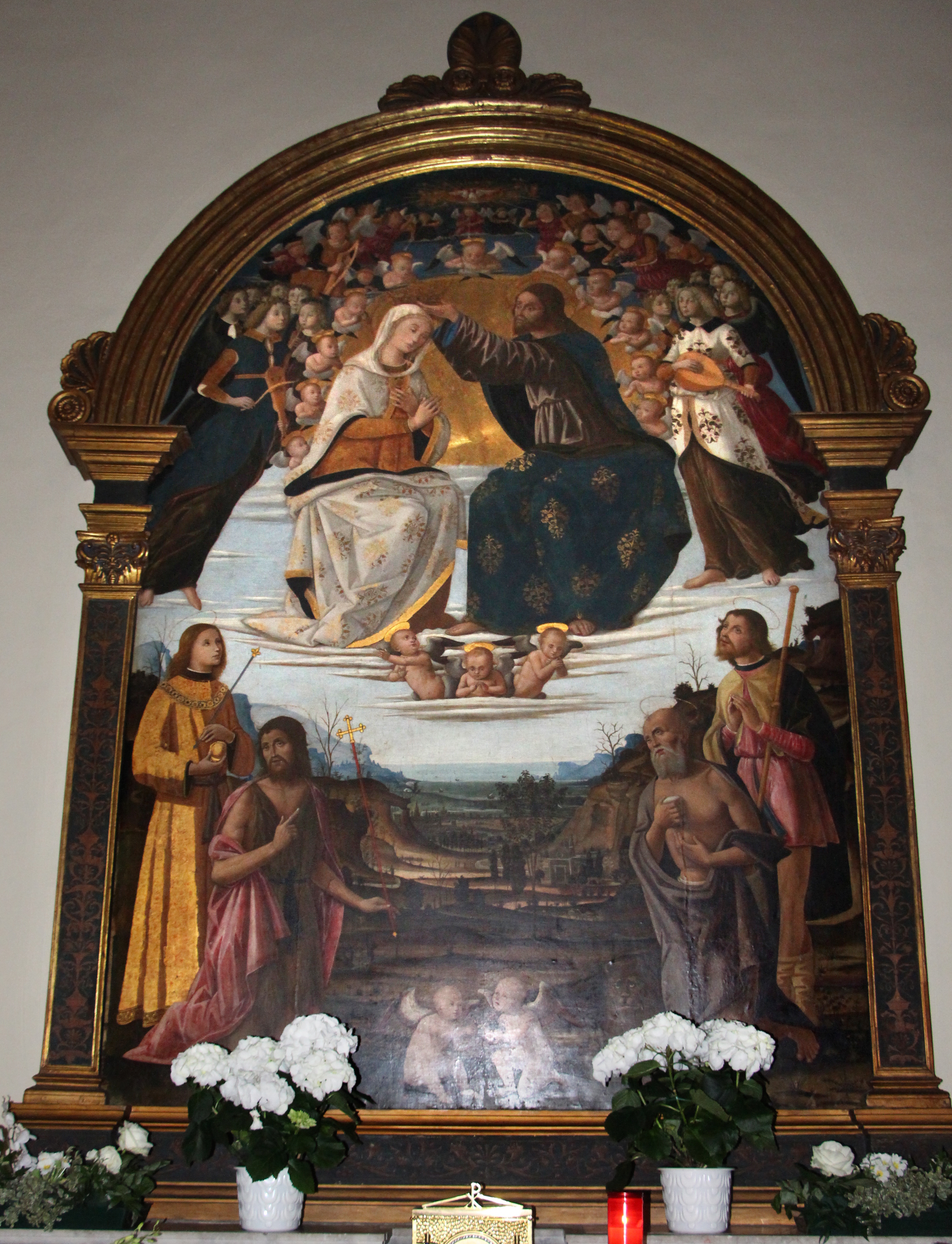 Santa Maria in Portico a Fontegiusta